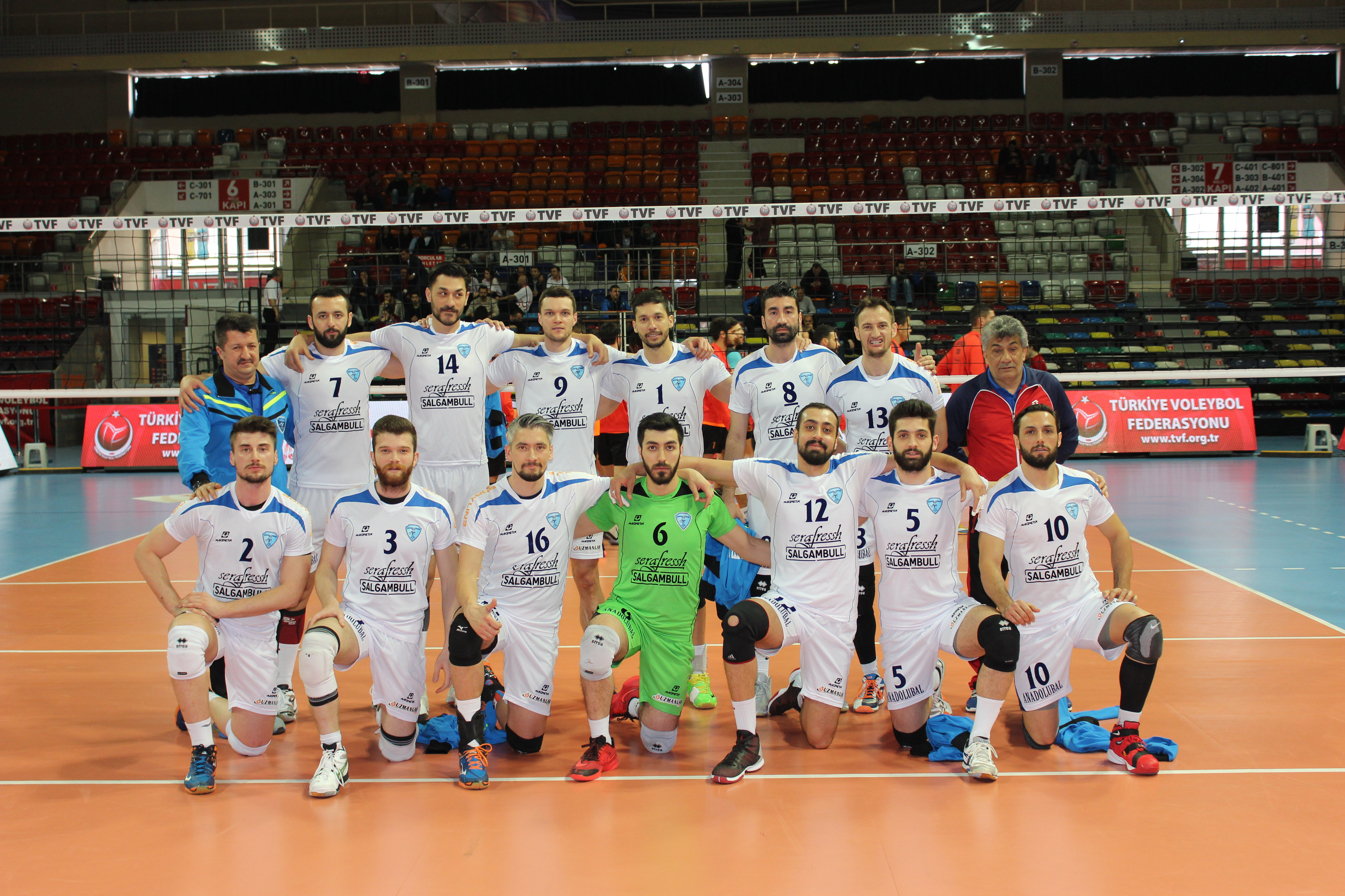 Team photo